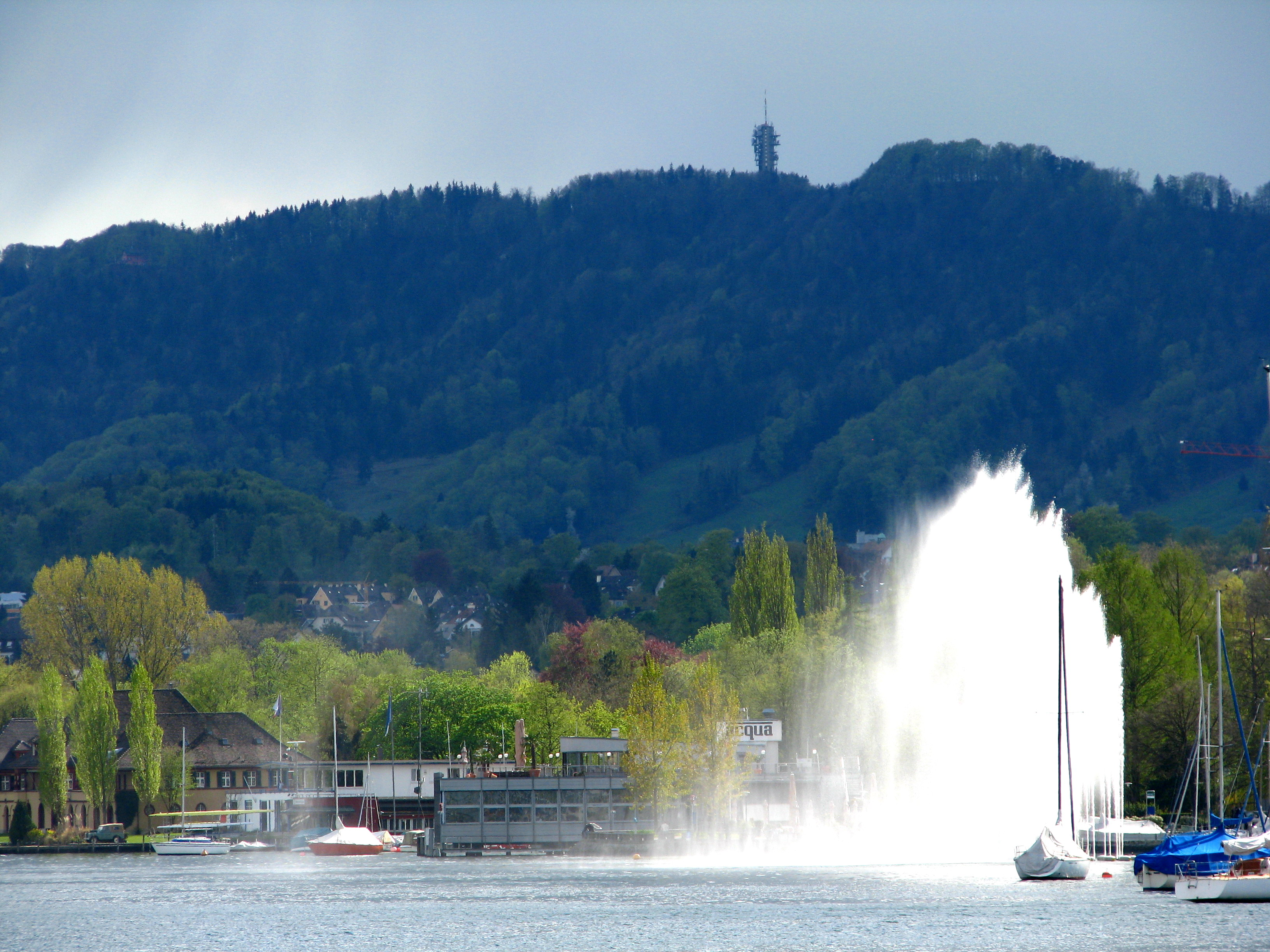 Zürich-Enge : Enge harbour, Zürichsee (Lake Zürich) fountain and Felsenegg-Girstel tower as seen from Lake Zürich.